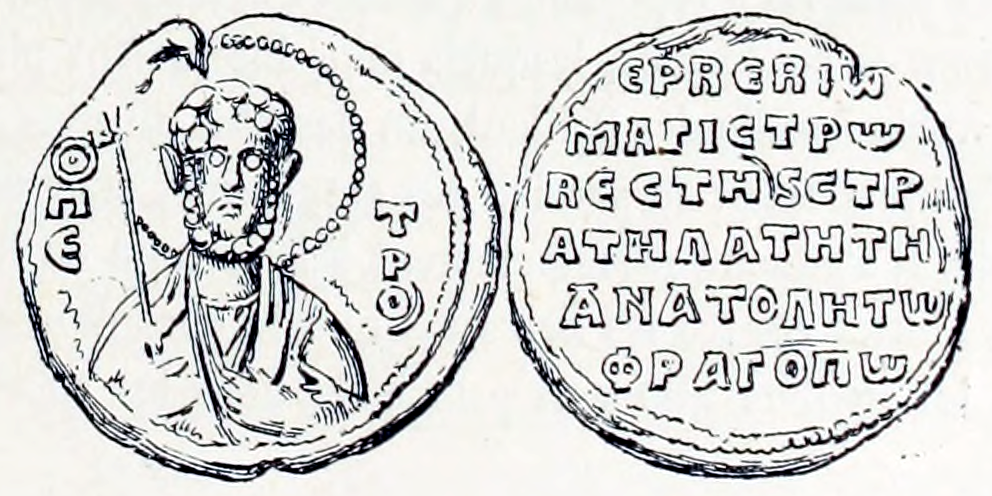 Seal of the magistros, vestes, and stratelates of the East Herve Frankopoulos